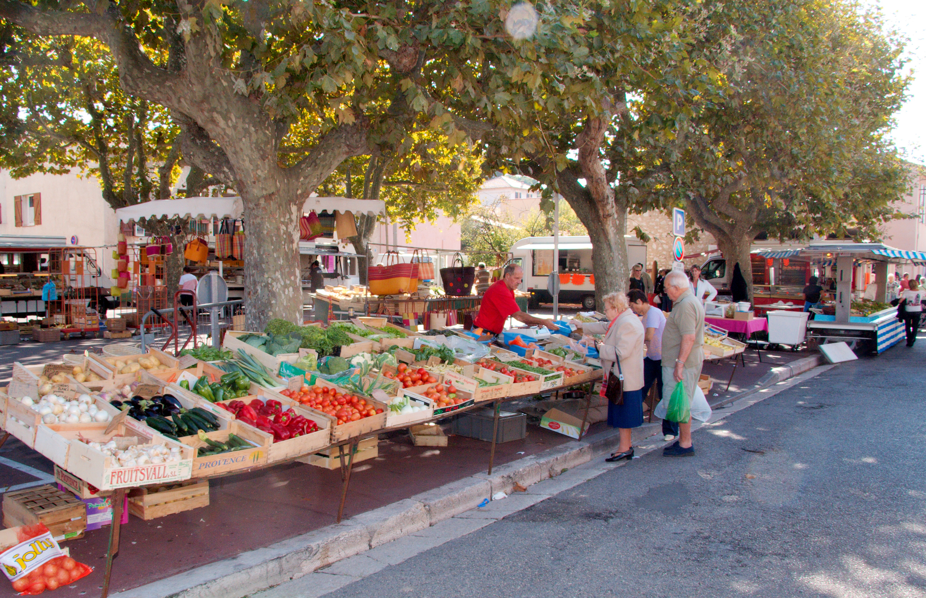 Carry-le-Rouet (Bouches-du-Rhône, France)